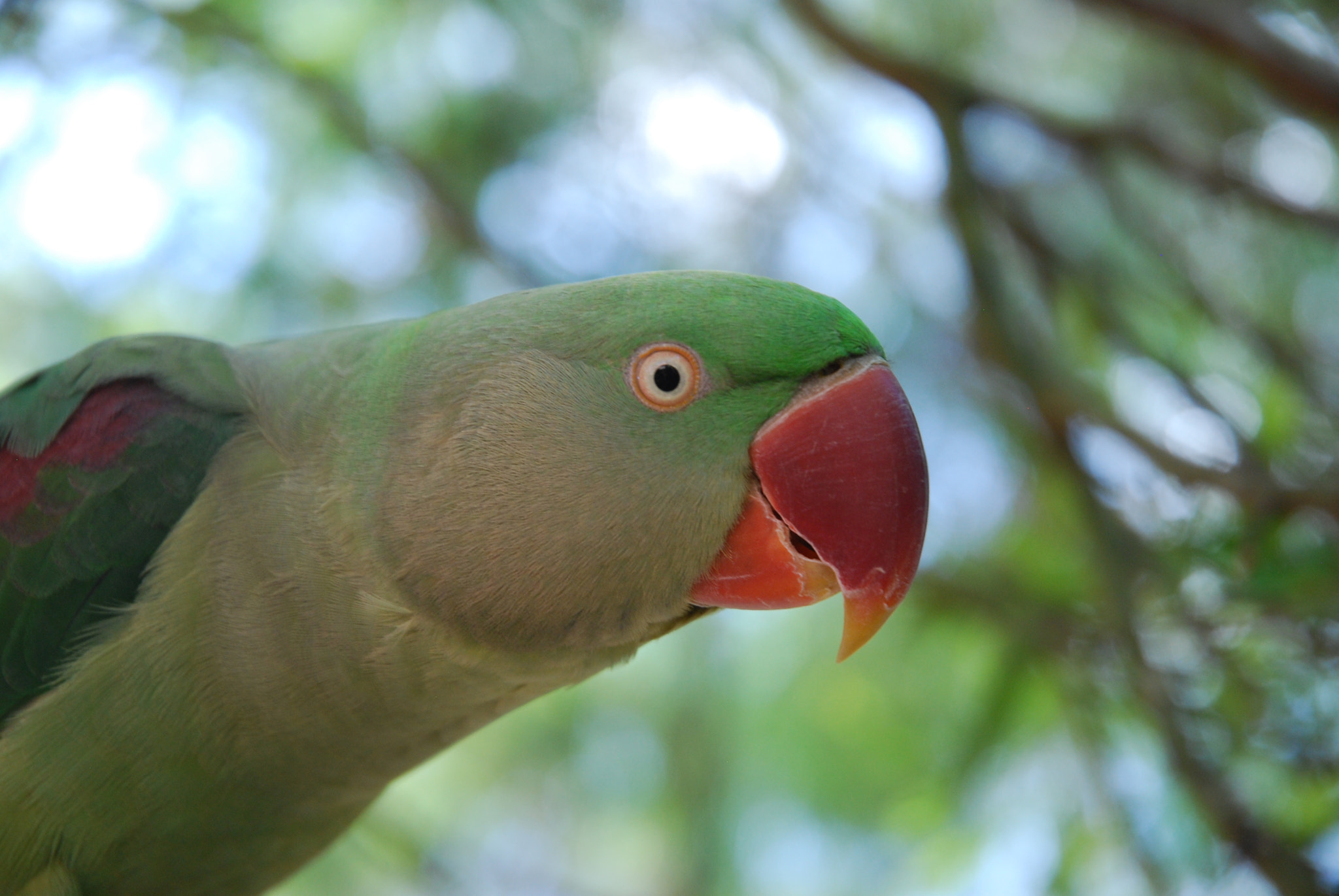 500px provided description: Parrot Jungle, Walpole, Western Australia 2010 [#close-up ,#parrot ,#eye ,#green ,#parakeet]